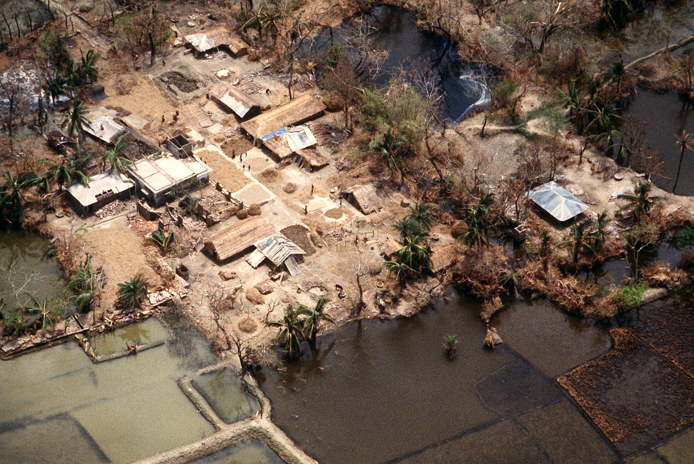 A damaged village surrounded by flooded fields, nearly three weeks after the 1991 Bangladesh cyclone hit the country.